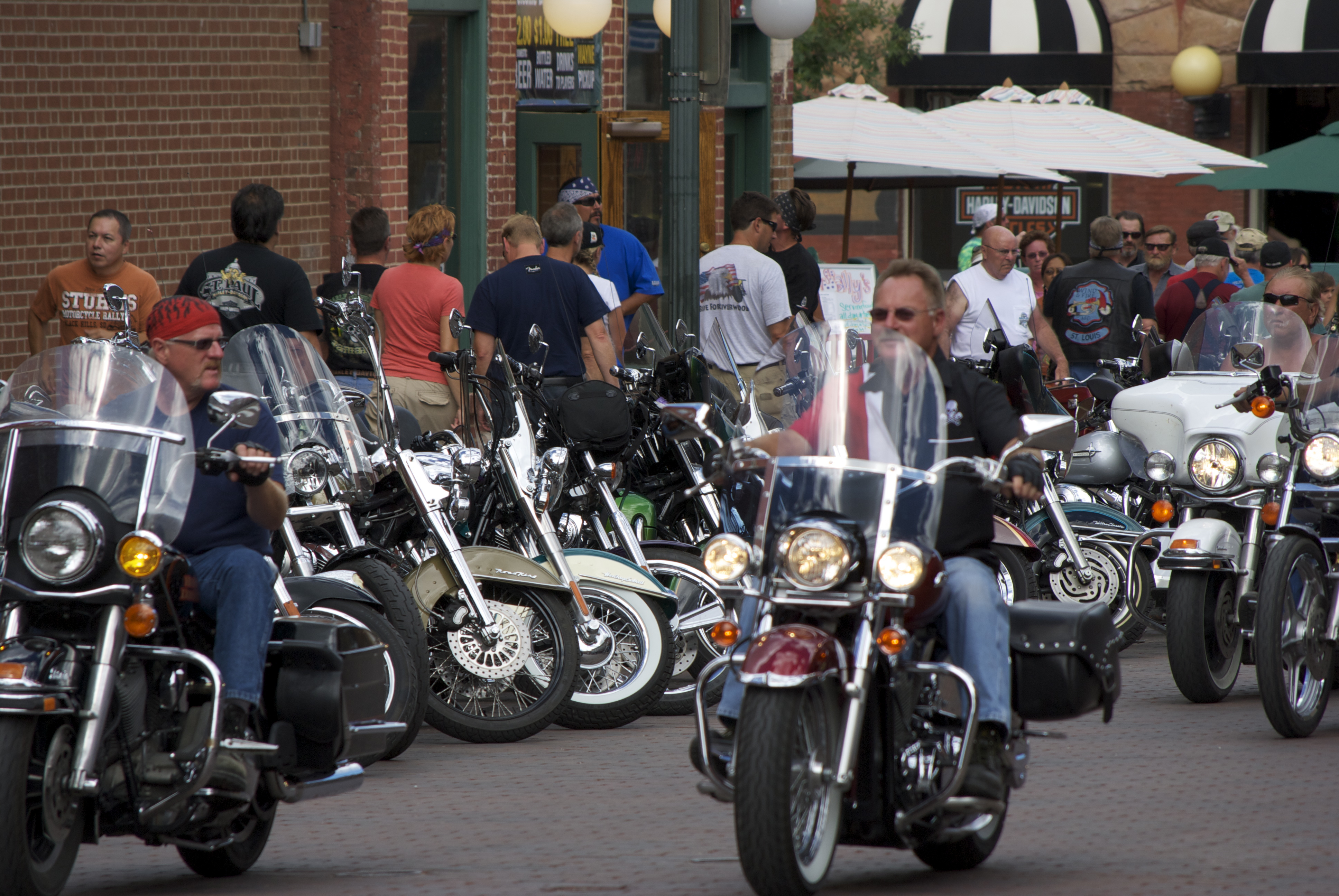 Flickr description: RAW ~ UN-Edited Pics from the Legends Ride Sturgis SD 70th anniversary Rally.